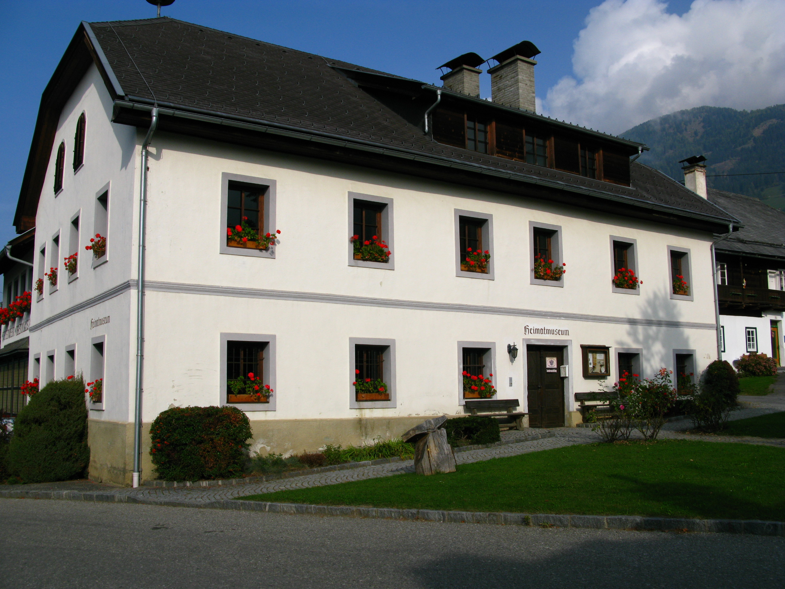 Old school of the village Obermillstatt near Lake Millstatt (Millstätter See), district Spittal an der Drau in Carinthia / Austria / EU. By the end of 1880 was the house Obermillstatt 7 the inn or guest house Reiner Rainer, a guest house, which existed at least 500 years Obermillstatt. It belonged to the neighboring Ranner (where today stands the community center), who was one of the largest farmers Obermillstätter time. The house was built around 1850 and was one of the first brick houses in Obermillstatt. Documented references 1477 at Tafern, Hube (National Library, 2859); 1520 Taferner Hube (Millstatt 1183, 1599 Taferner Hube (Millstatt 541); 1670 Taferner Hube (Millstatt, 2277); 1791 Tafern Hube (StiRe. Millstatt, 2254); 1827 Weitsch (Francis II register).